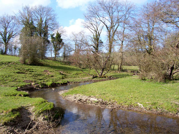 River Unk The River Unk at a crossing with the unclassified road from Cefn Einion to Three Gates.